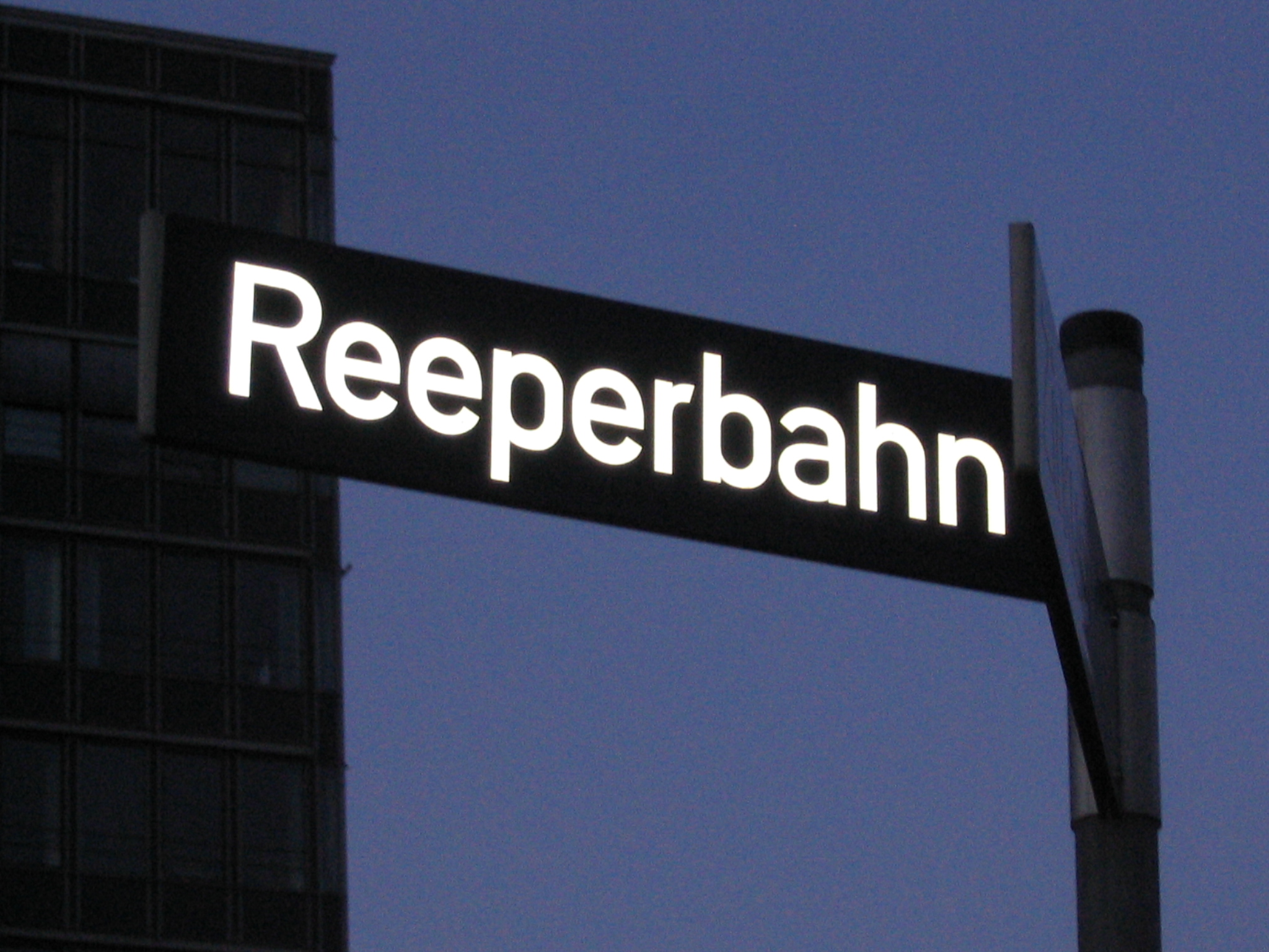 Street sign Reeperbahn in Hamburg